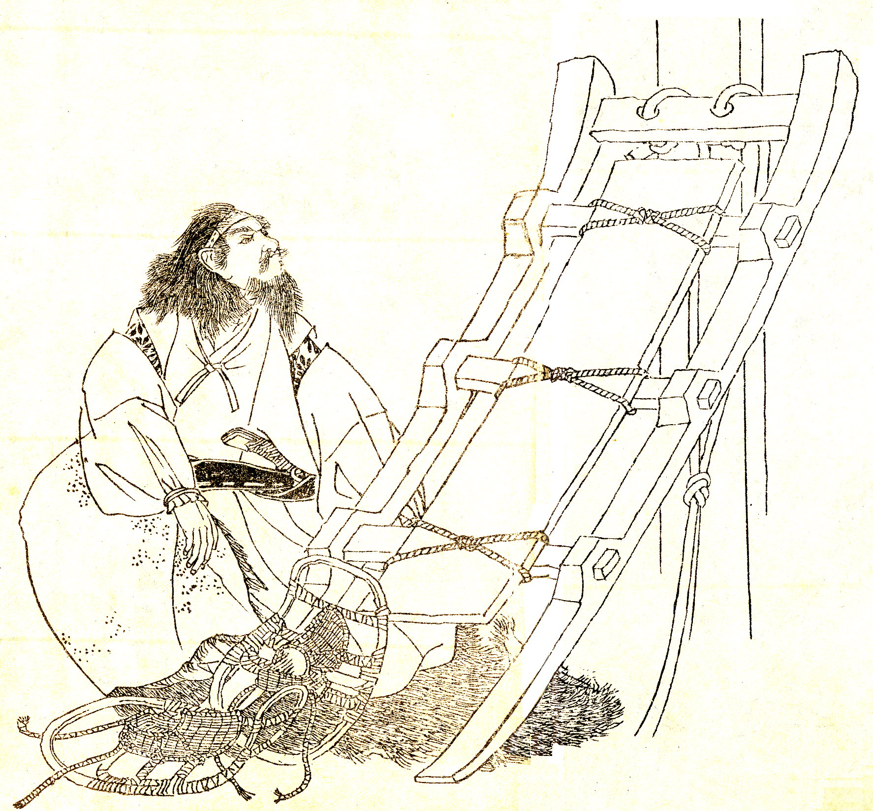 Fujiwara no Toshihito (藤原利仁) was a noble and general during Japan's Heian period.This picture was drawn by Kikuchi Yosai（菊池容斎） who was a painter in Japan.